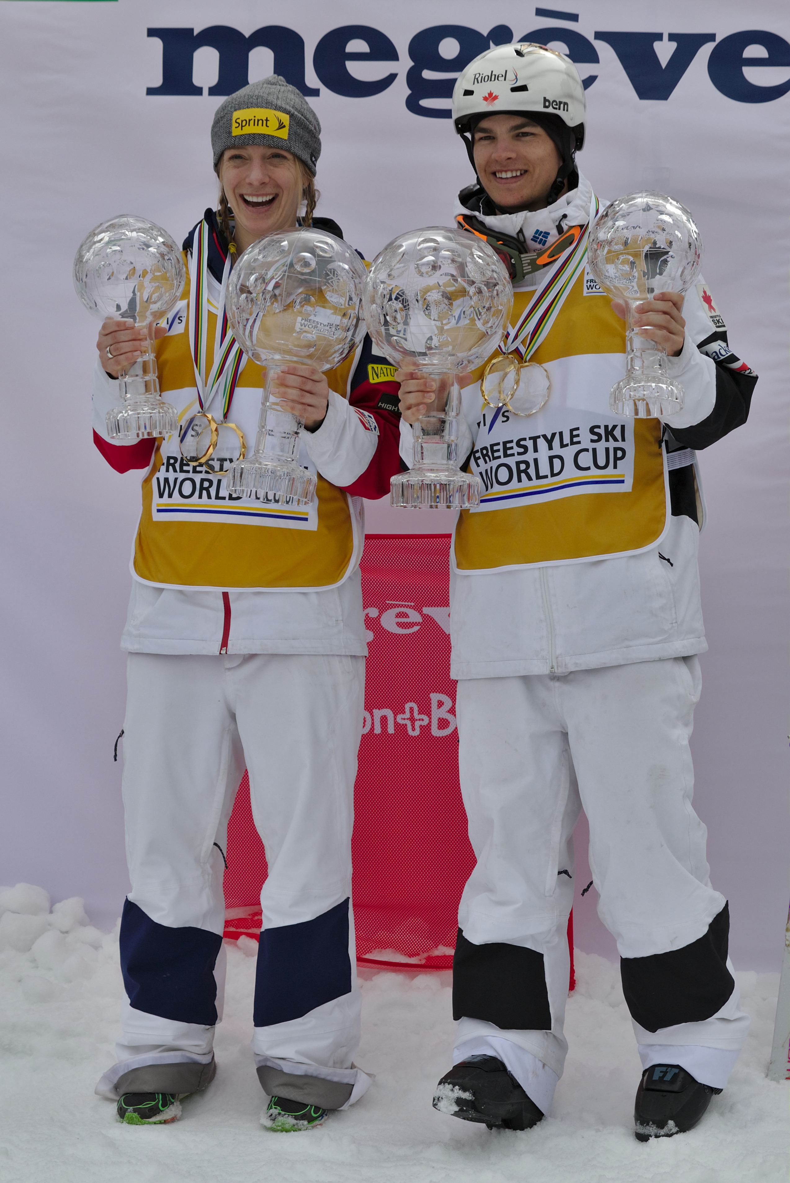 FIS Moguls World Cup 2015 Finals - Megève - 20150315 - Hannah Kearney et Mikael Kingsbury